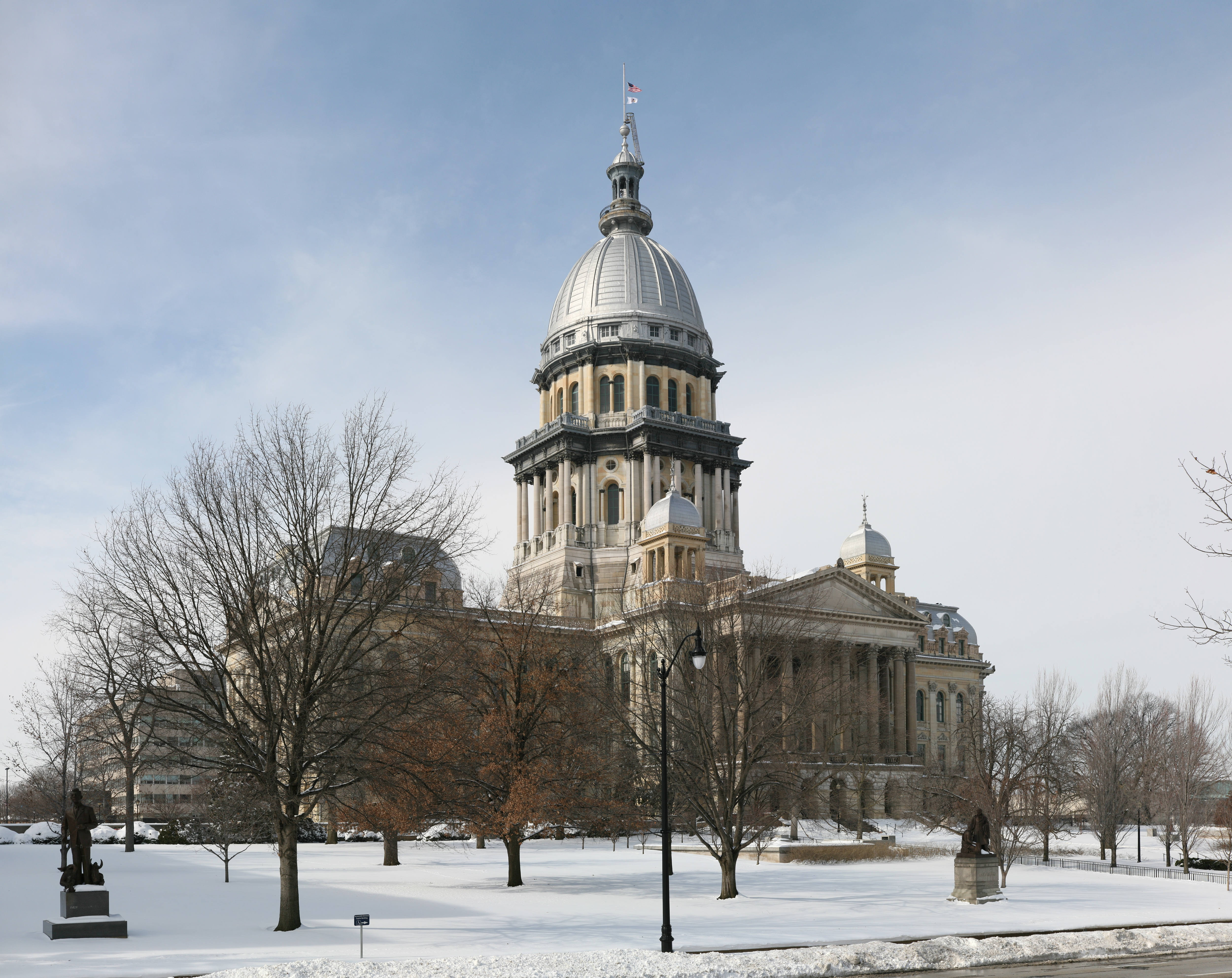 Illinois State Capitol in Springfield This image was created with Hugin.